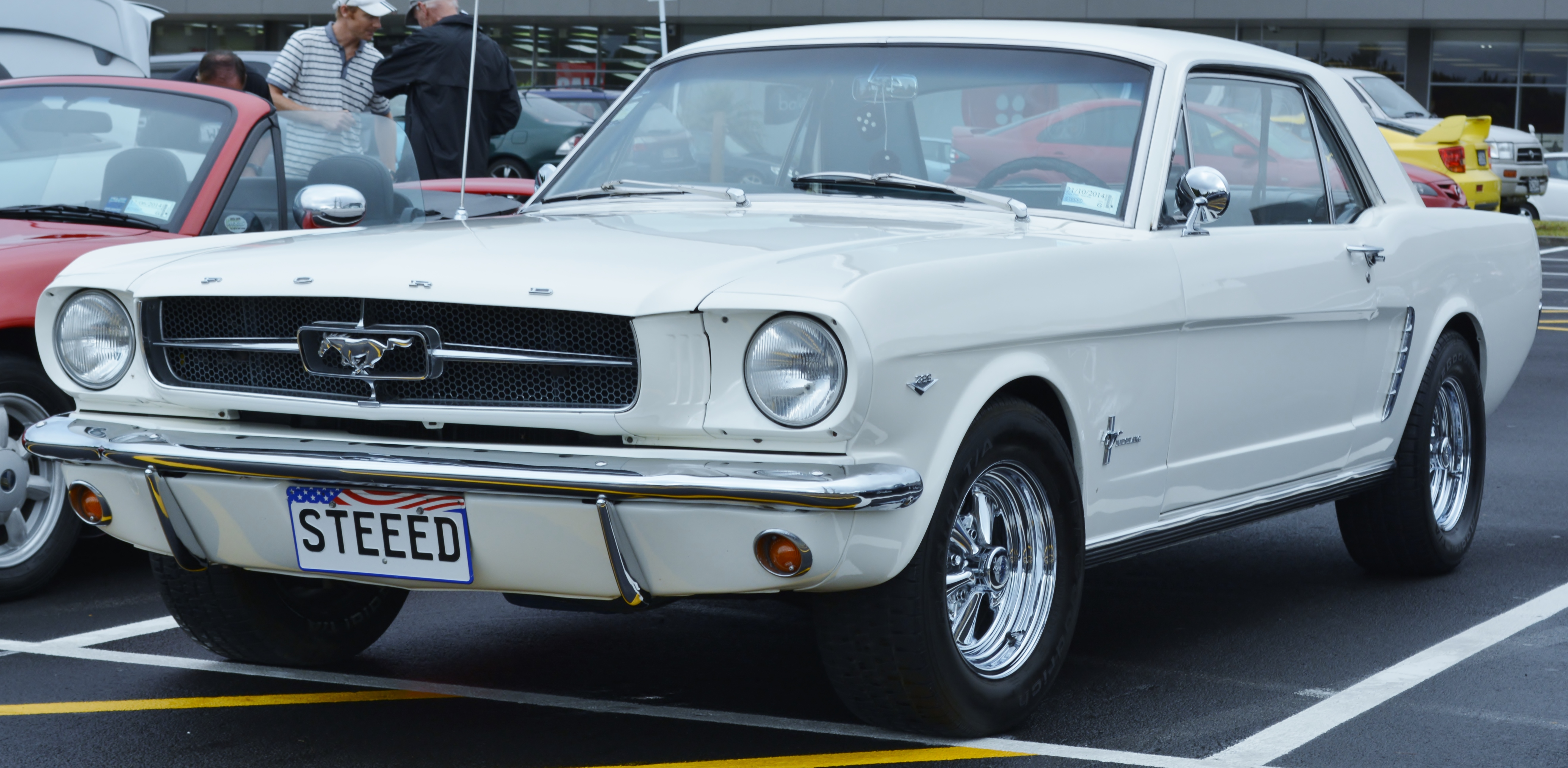 At Westgate Shopping Centre,West Auckland New Zealand